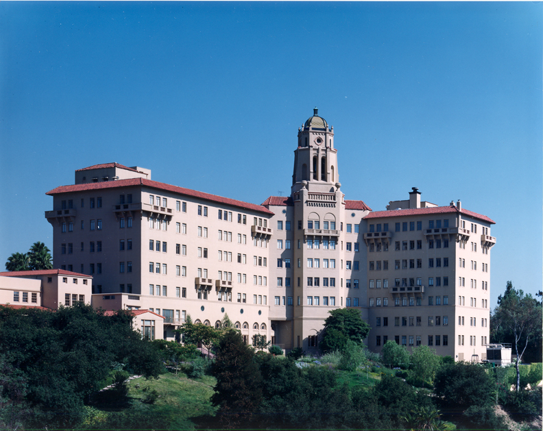 Richard H. Chambers United States Court of Appeals Building — Pasadena, California. Formerly the Vista del Arroyo Hotel — completed in 1931 on the Arroyo Seco (canyon) rim. Architects: Sylvanus Marston and Myron Hunt. Still in use by the U.S. Court of Appeals for the Ninth Circuit, which began meeting here in 1985. Renamed the Richard H. Chambers United States Court of Appeals Building in 1992.